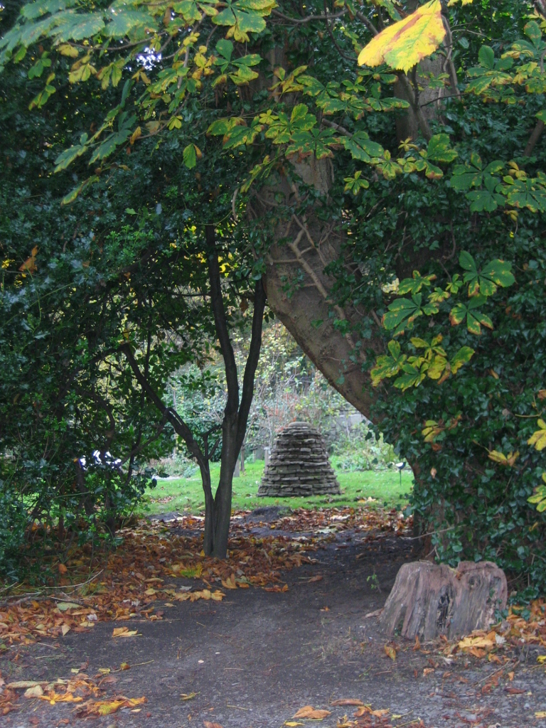 Stirling art gallery, Scotland